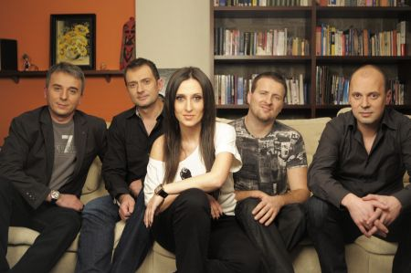 Mary Boys Band